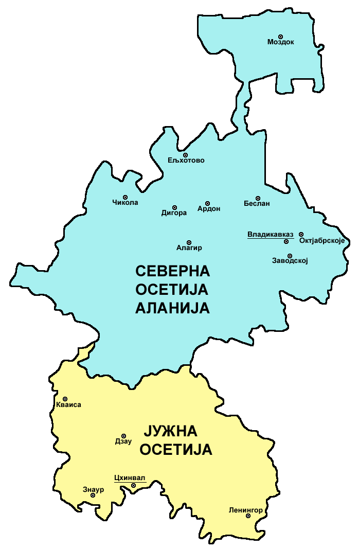 Map of Ossetia (North Ossetia and South Ossetia) - Serbian language version.